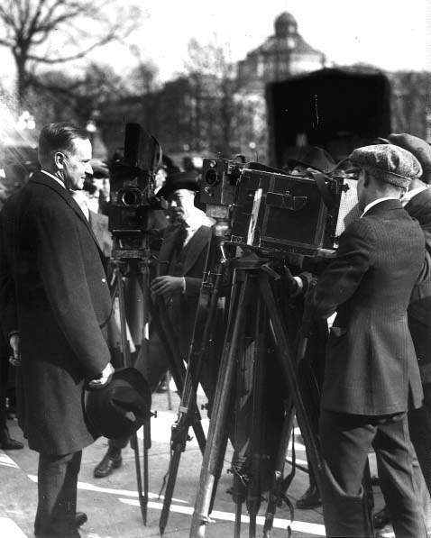 President Calvin Coolidge Facing Press Photographers